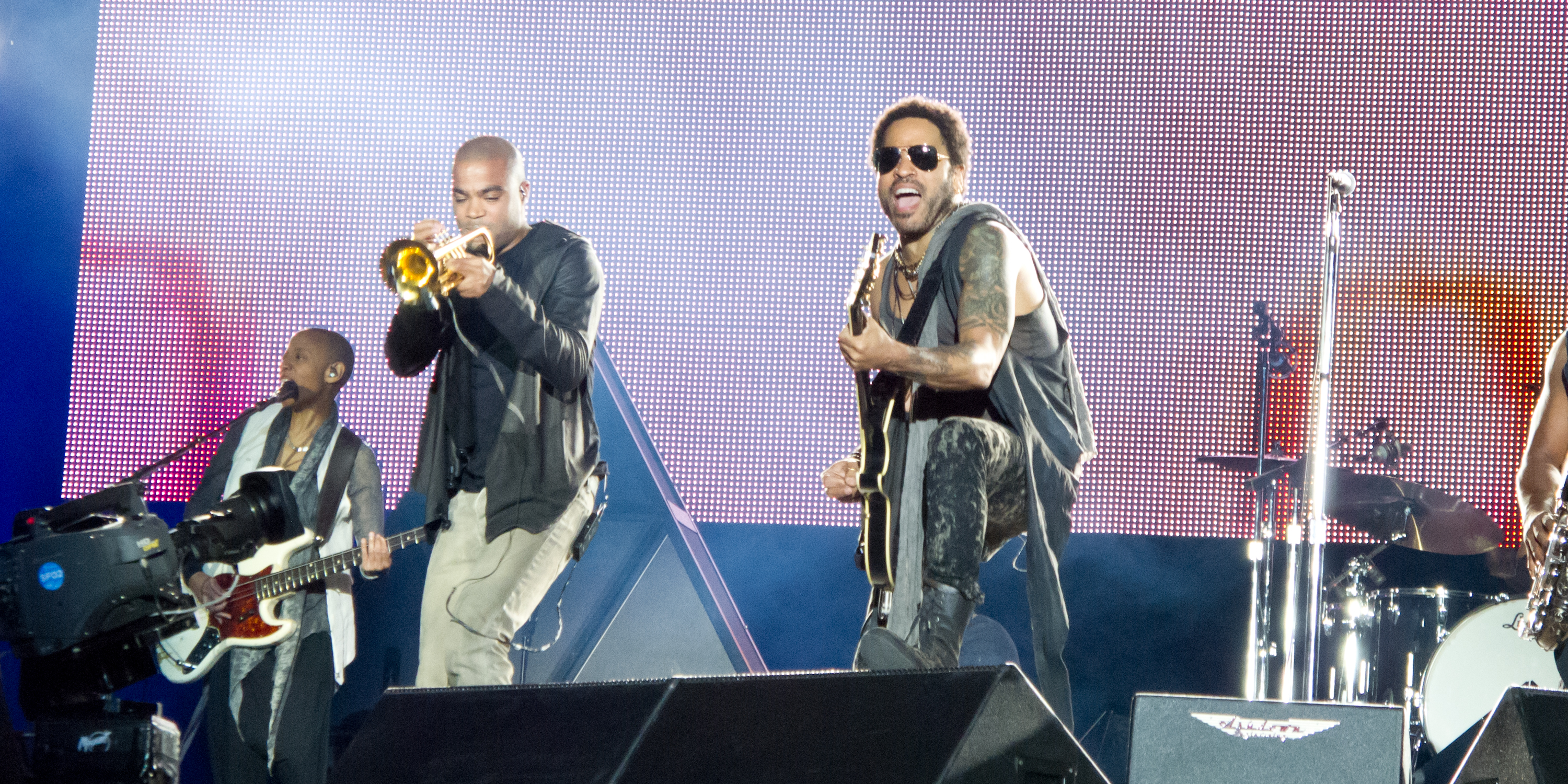 Lenny Kravitz live in Rock in Rio Madrid 2012.